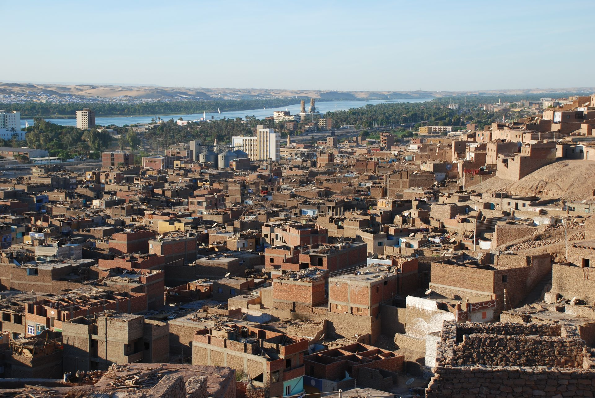 Aswan, Egypt, northern part of town